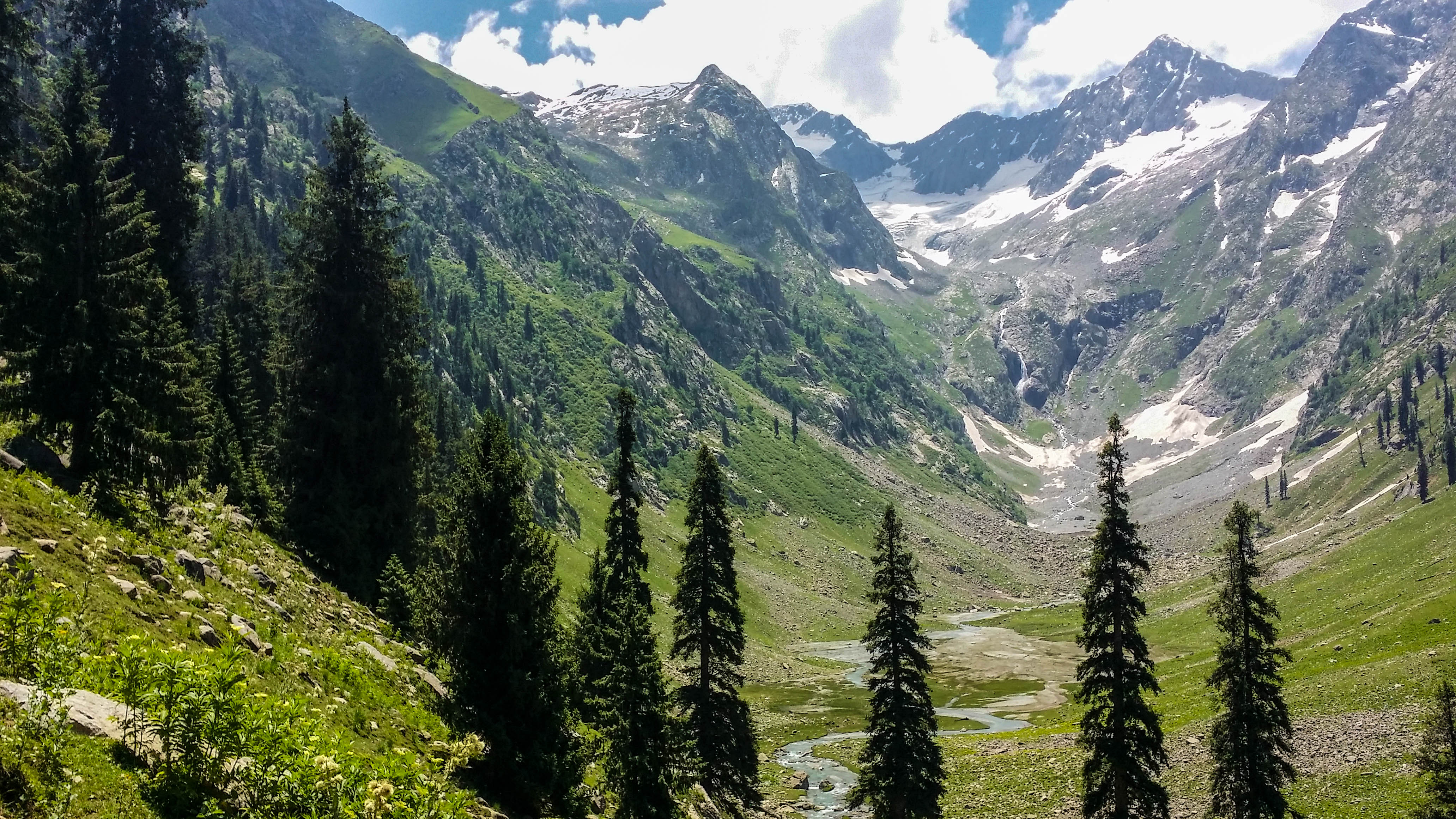 Jazz banda dir